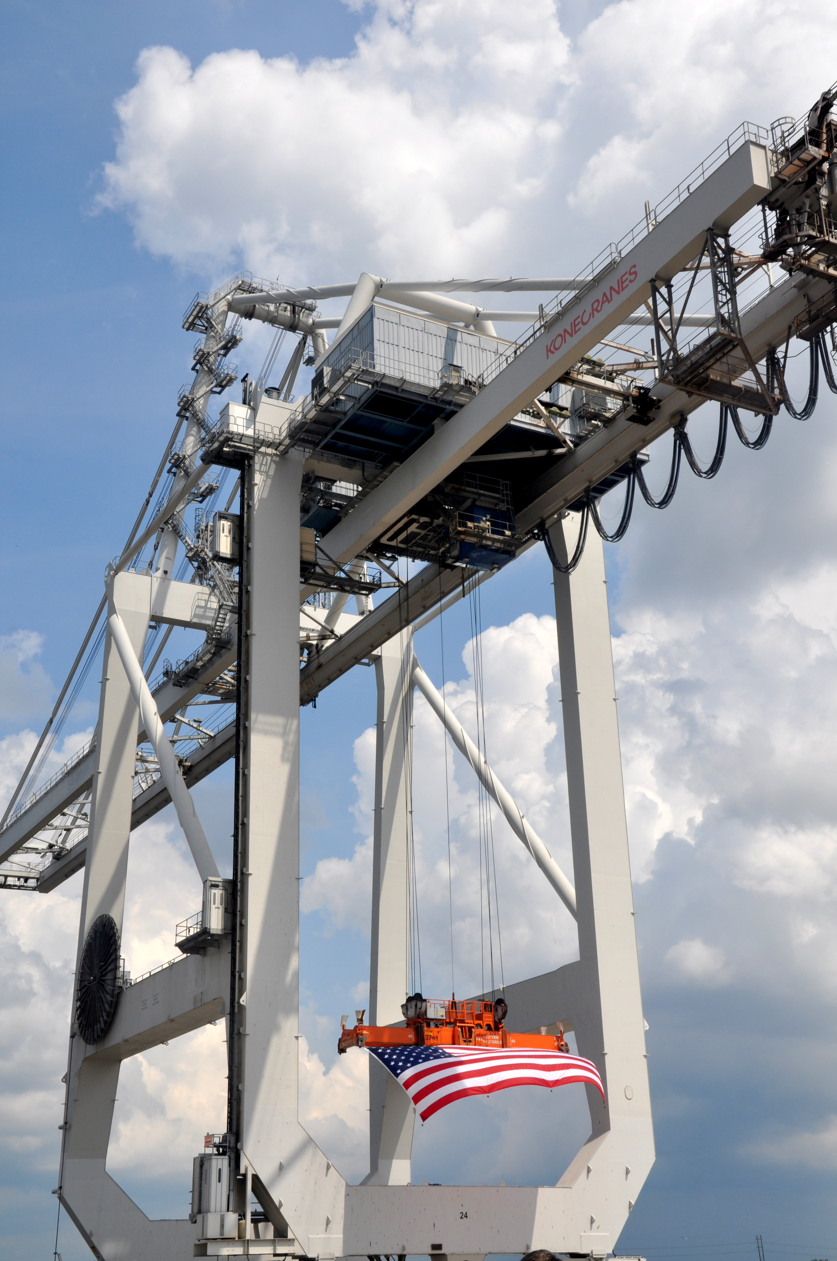 An American flag hangs from a massive cargo crane at the Garden City Ocean Terminal to commemorate a visit by Vice President Joe Biden, in Savannah, Ga., Sept. 16, 2013. (U.S. Army photo by Tracy Robillard/Released)